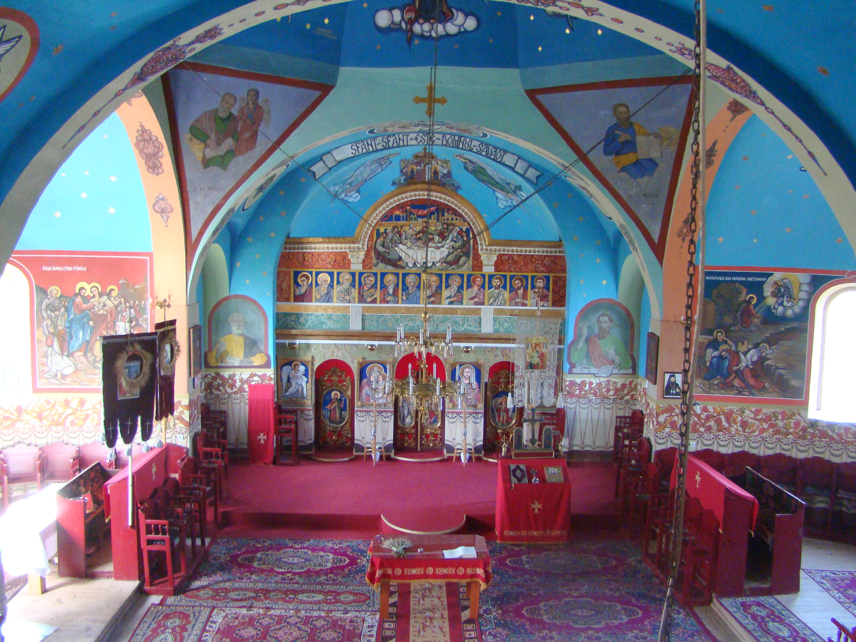 Church of the Annunciation in Ormindea, Hunedoara county, Romania